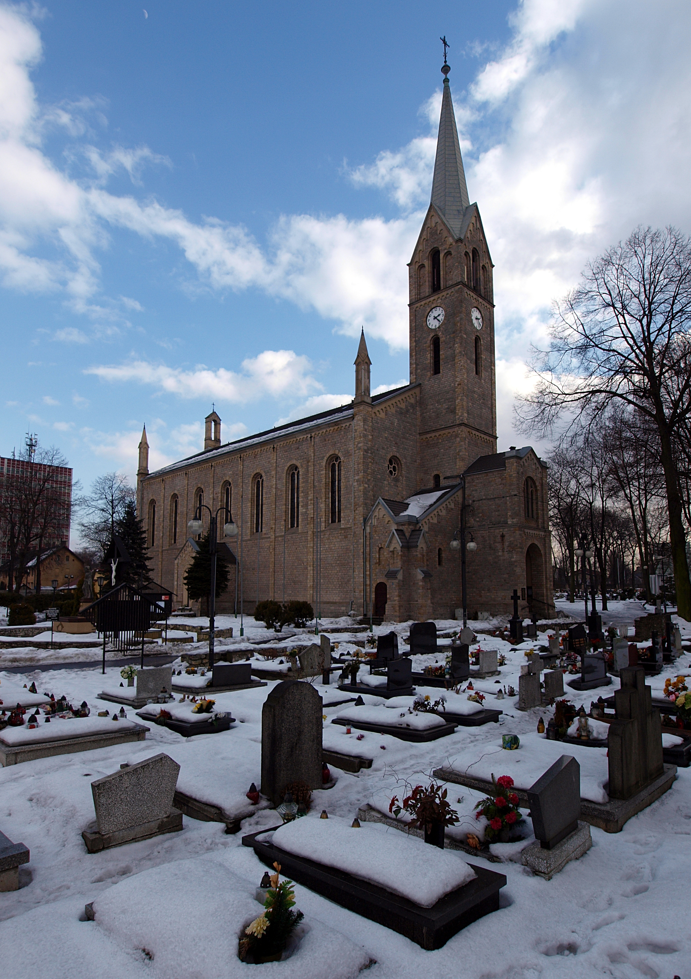 Saint Andrew's Church in Zabrze.